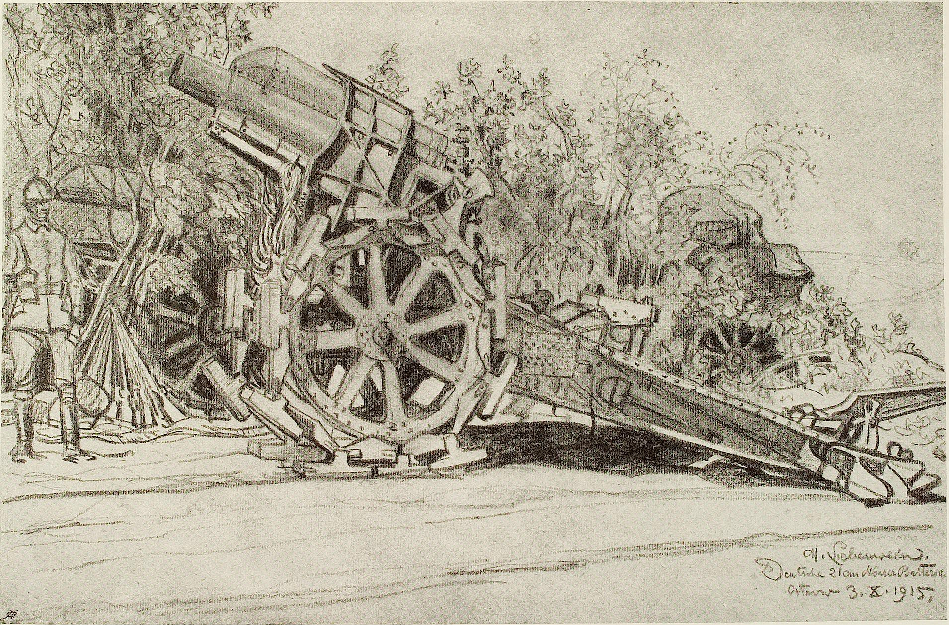 Deutsche 21 cm Mörserbatterie in Ostrow from Die graphischen Künste (1916)